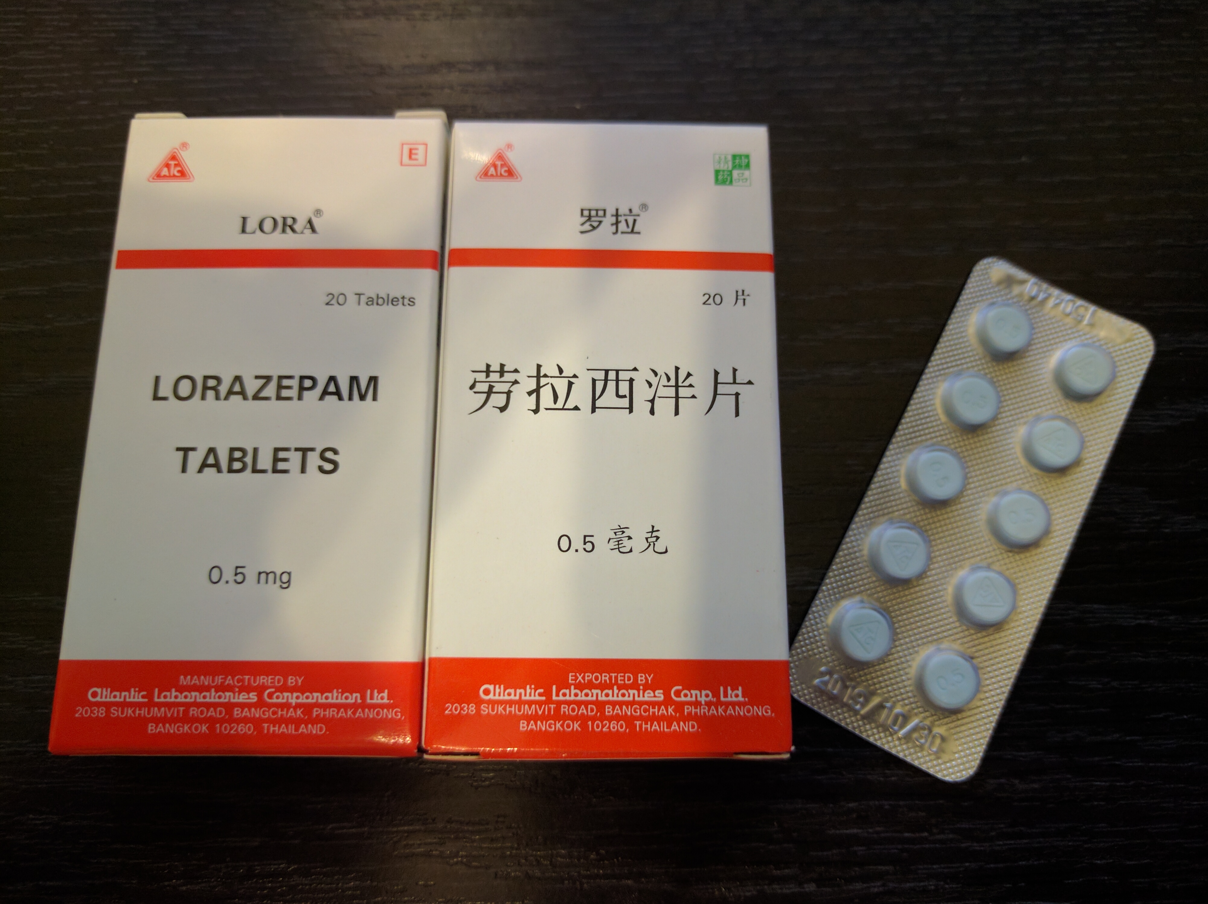 Lorazepam Tablets (Lora®) sales in Mainland China